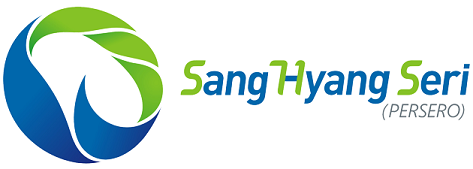 Logo Sang Hyang Seri